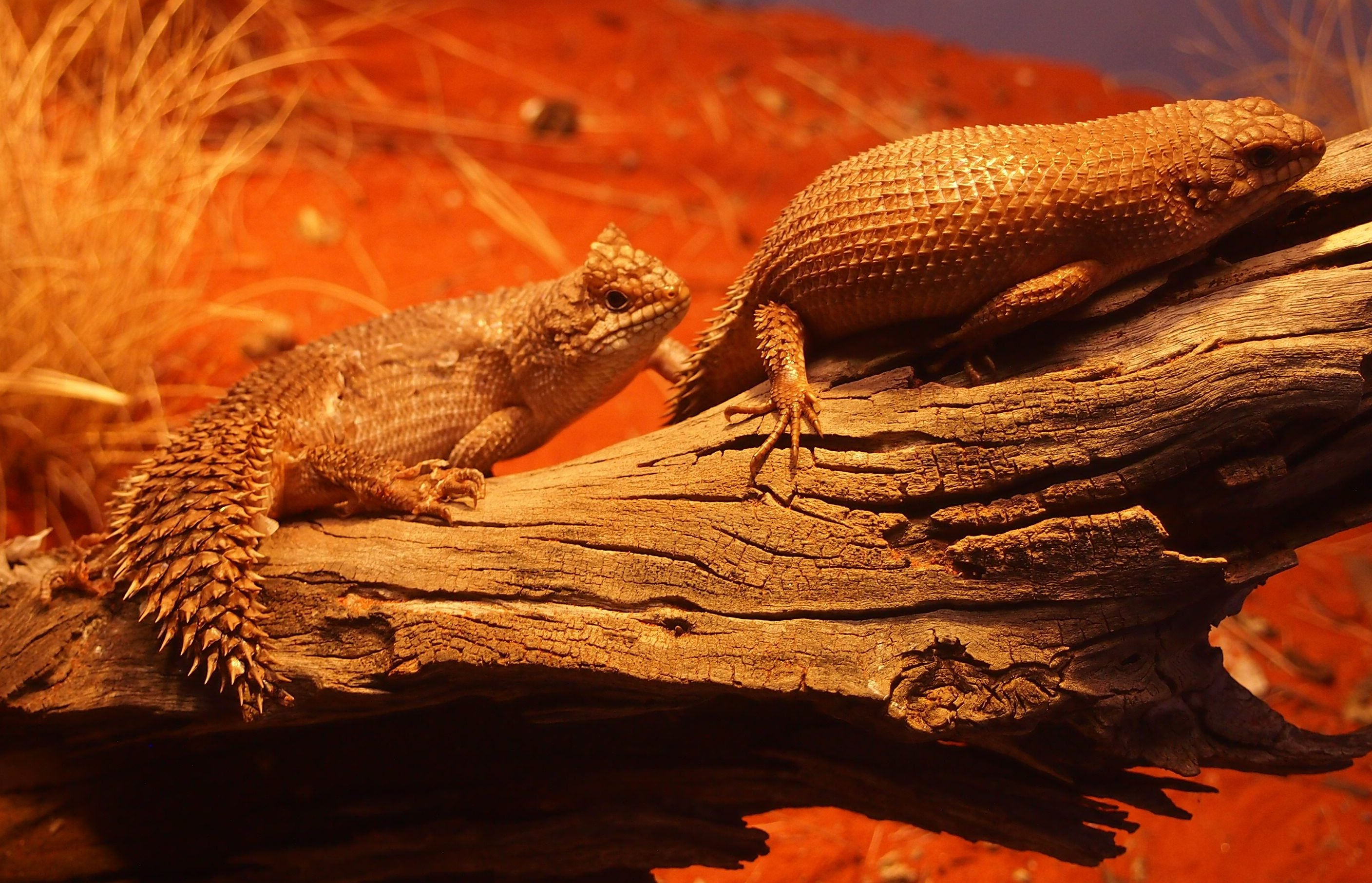 Egernia stokesii